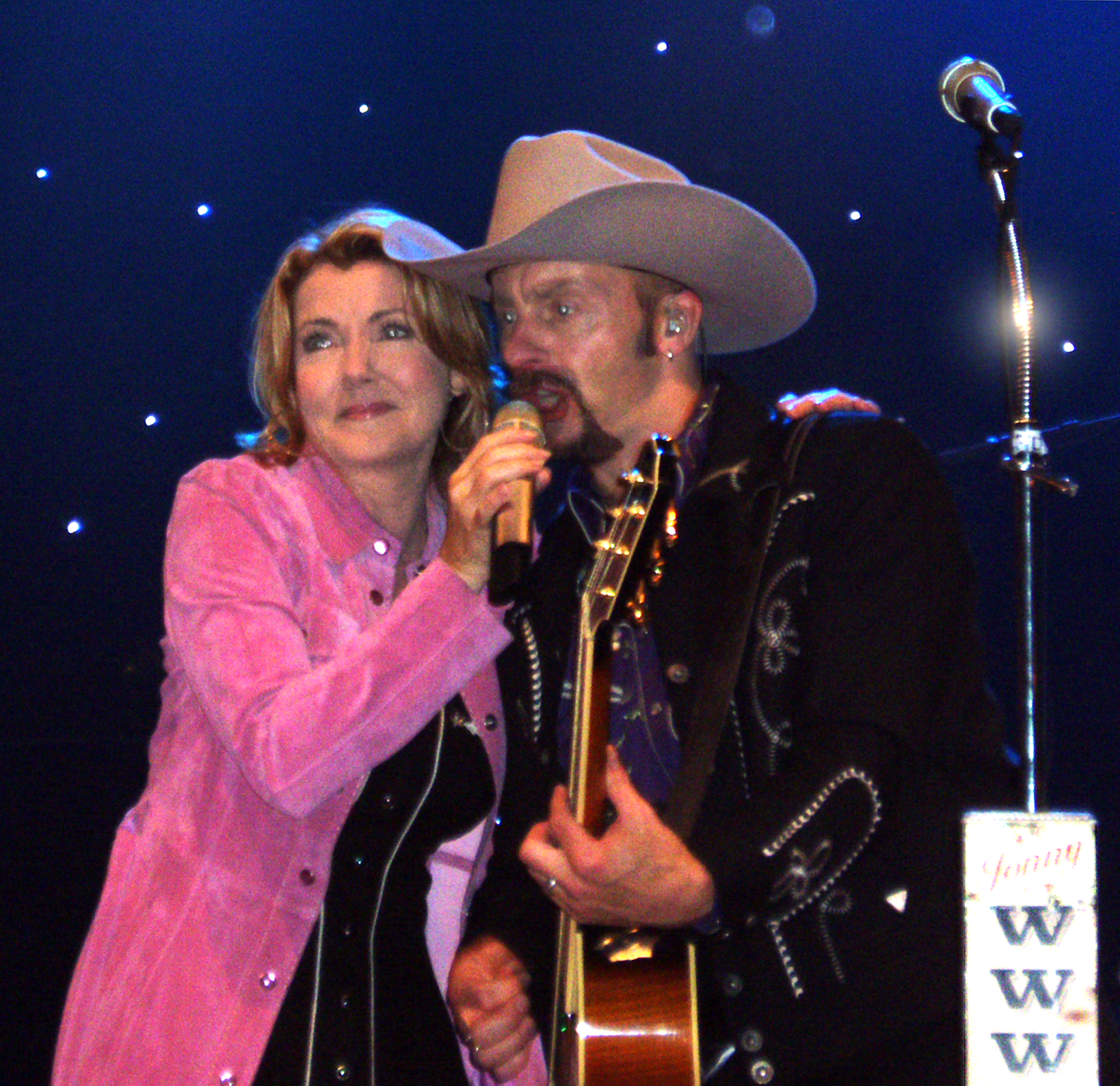 Jane Comerford and Jon Flemming Olsen as lead singers of German country band Texas Lightning on 29th September 2007 in the Autostadt, Wolfsburg, Germany.